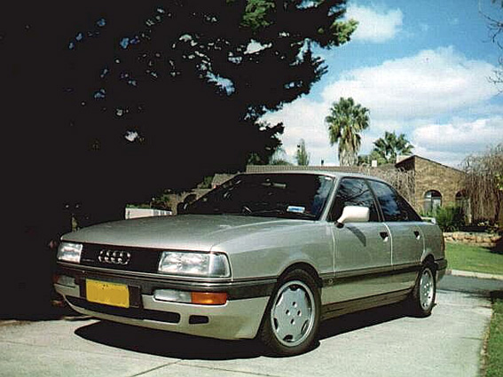 1989 Audi 90 quattro 20 valve 125kW (170 Bhp) inline 5-cylinder engine quattro all-wheel-drive Photographer: Trent Chellingworth